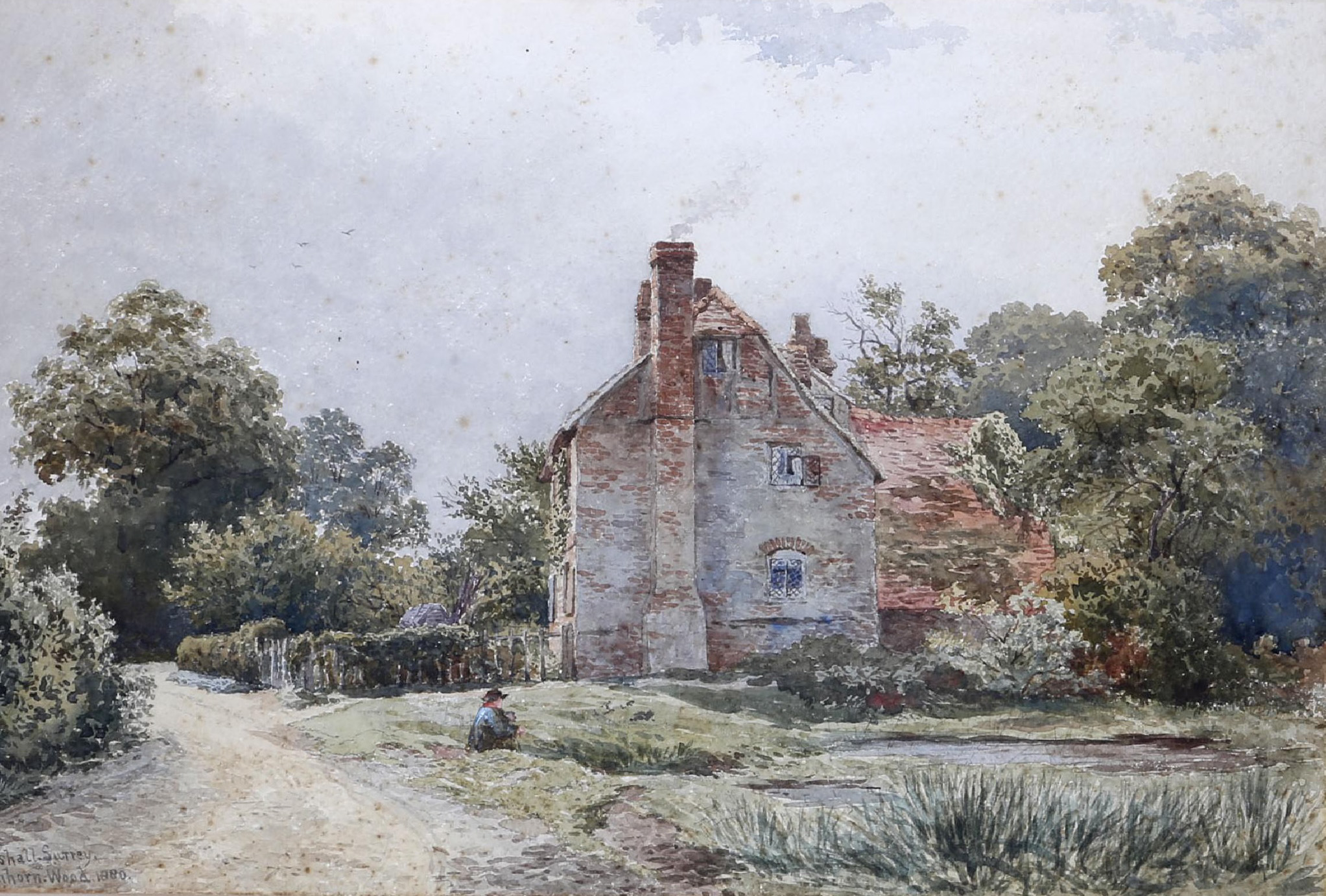 This watercolour, measuring 33x50cms, portrays a 16th century manor house at Towerhill in Gomshall, Surrey, close to the artist's family home of 'Burnside' (now 'Sayers') in Shere village.